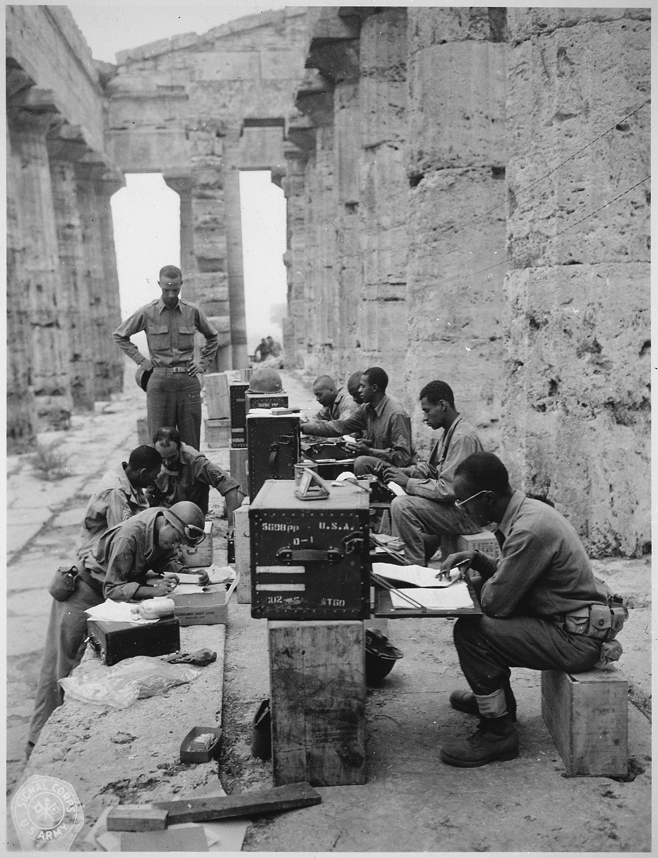 Scope and content: At desk, front to rear: Sgts. James Shellman, Gilbert A. Terry, John W. Phoenix, Curtis A. Richardson, and Leslie B. Wood. In front of desk, front to rear: T/Sgt. Gordon A. Scott, M/Sgt. Walter C. Jackson, Sgt. David D. Jones, and WO Carlyle M. Tucker. Italy.